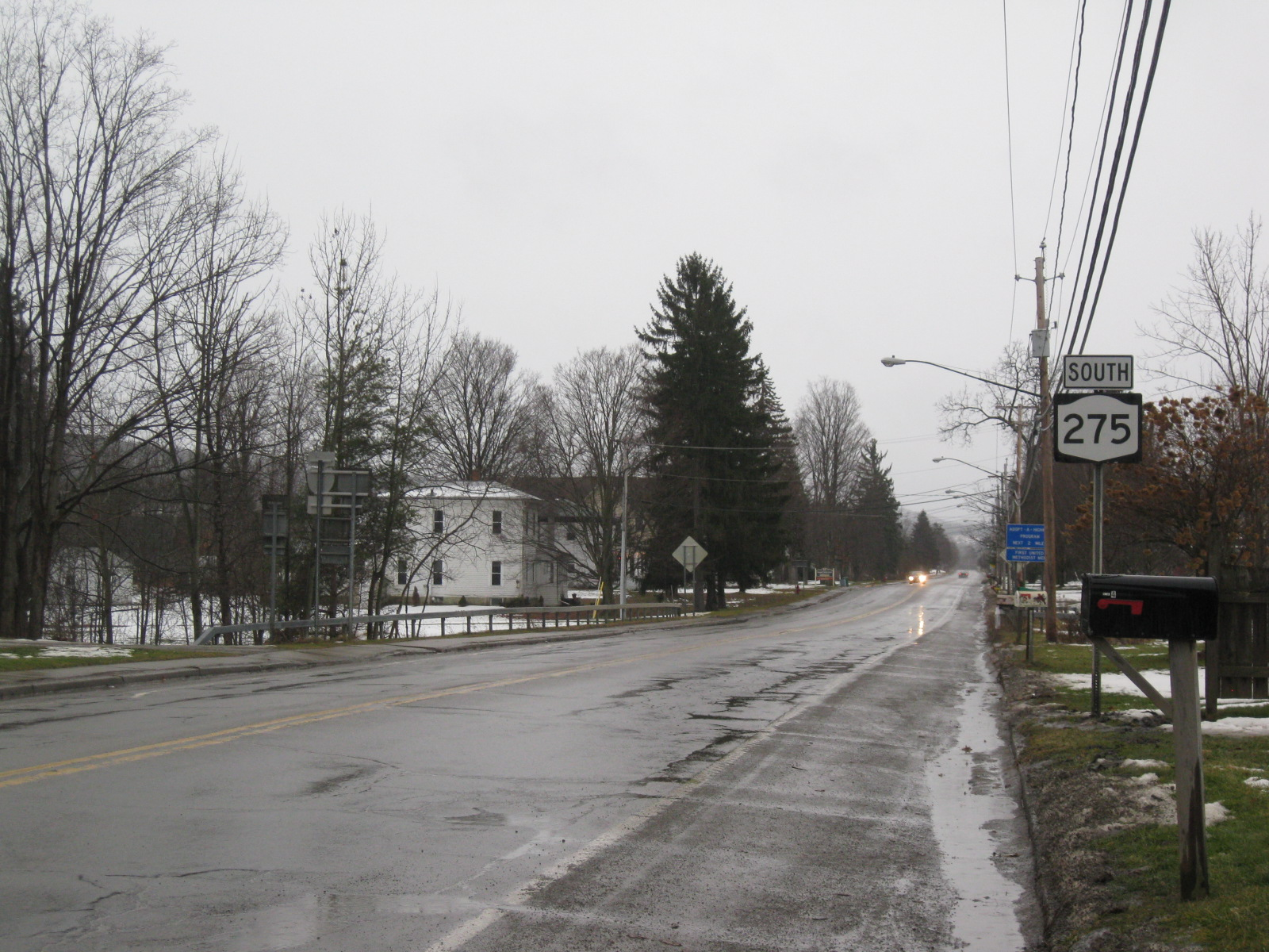 New York State Route 275 southbound through the hamlet of Friendship just south of CR 20.